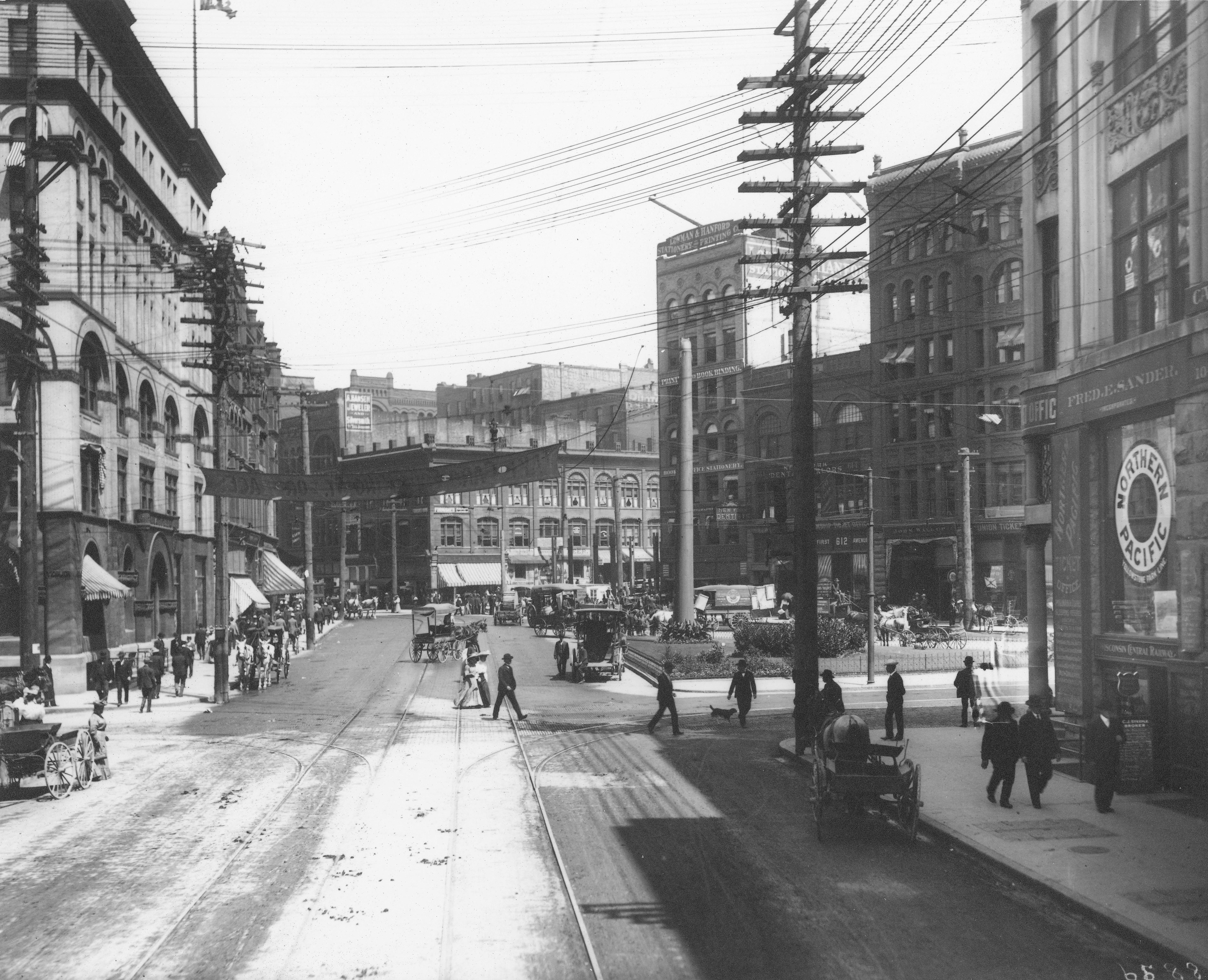 Looking north from Yesler Way. Pioneer Building and Olympic Block at right; Mutual Life Building at left. Lowman and Hanford Stationary and Printing Co. in background. Subjects (LCTGM): Streets--Washington (State)--Seattle; Business districts--Washington (State)--Seattle Subjects (LCSH): First Avenue (Seattle, Wash.); Pioneer Building (Seattle, Wash.); Olympic Block (Seattle, Wash.); Mutual Life Building (Seattle, Wash.)